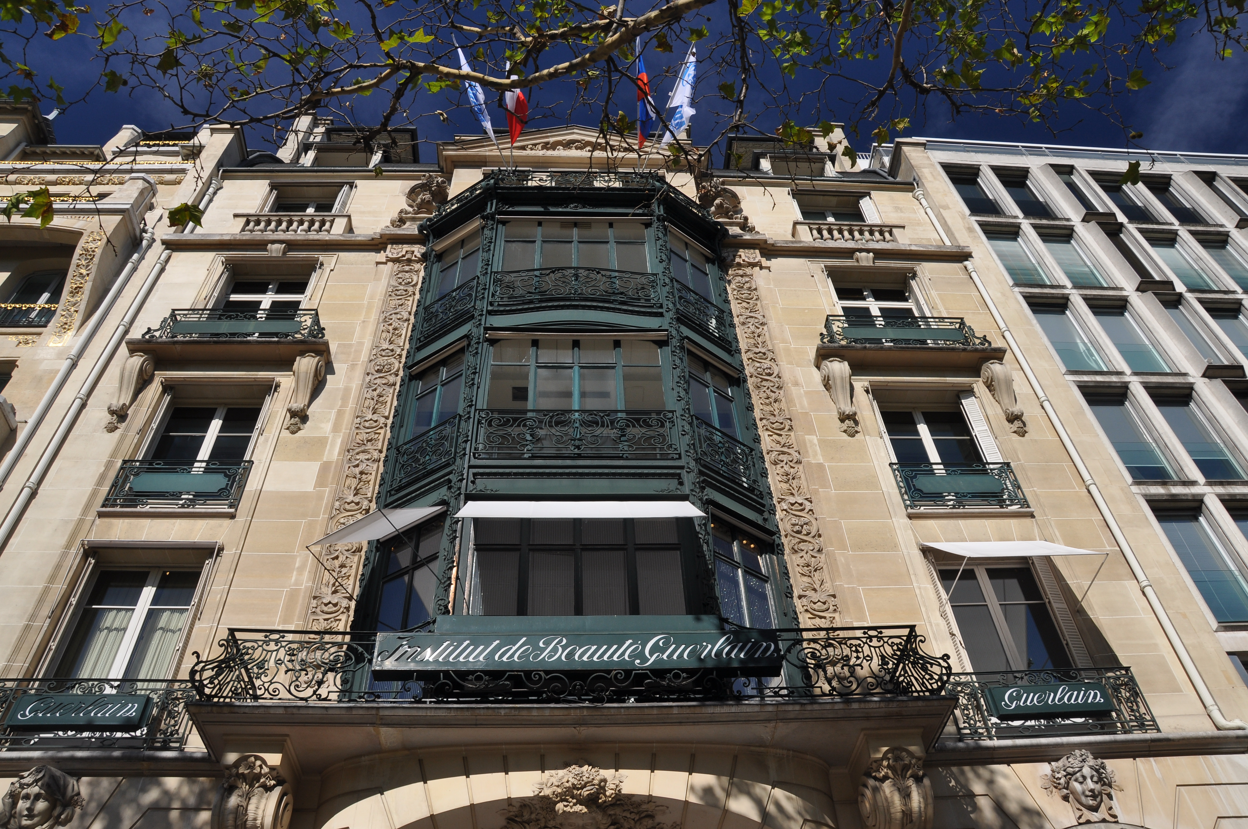 Bay windows of the building at 68 avenue des Champs-Élysées in the 8th arrondissement of Paris in France. Built in 1914 for perfumers Jacques and Pierre Guerlain and registered historical monuments by the French Ministry of Culture.